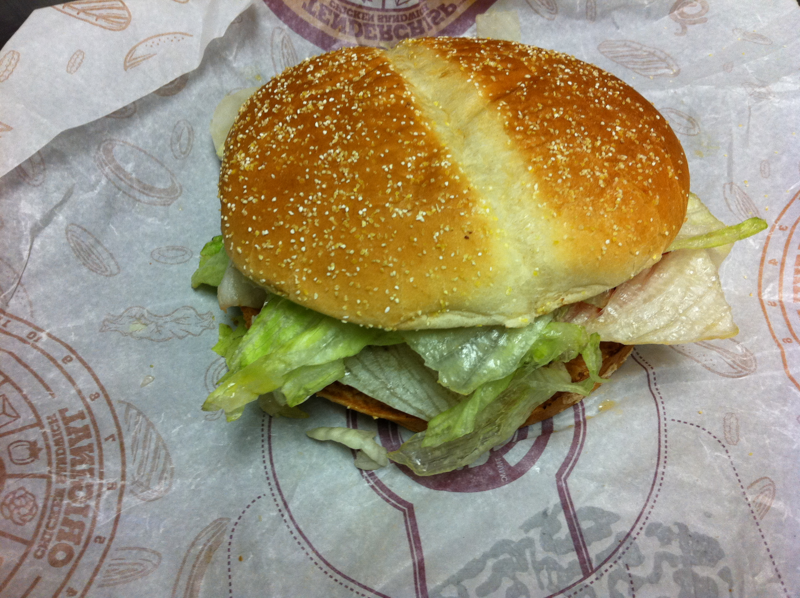 Burger King TenderGrill sandwich, original version